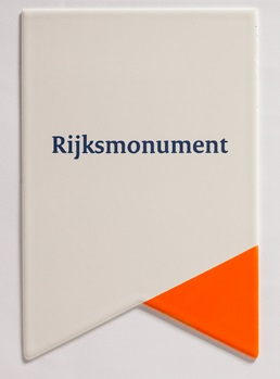 New destinctive emblem for monuments in the Netherlands